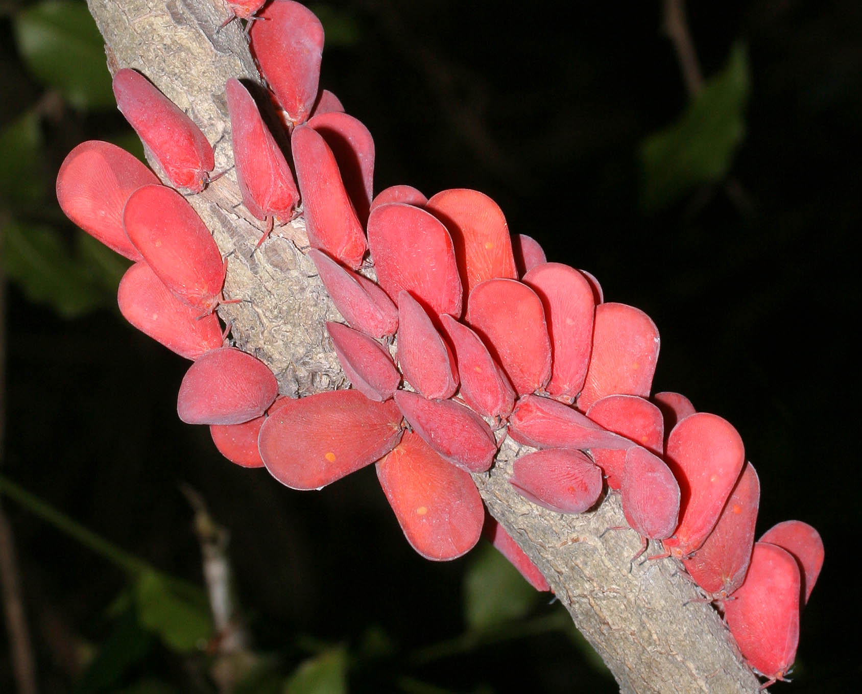 Phromnia rosea (flatid leaf bugs) seen in Anja Reserve near Ambalavao, Madagascar.